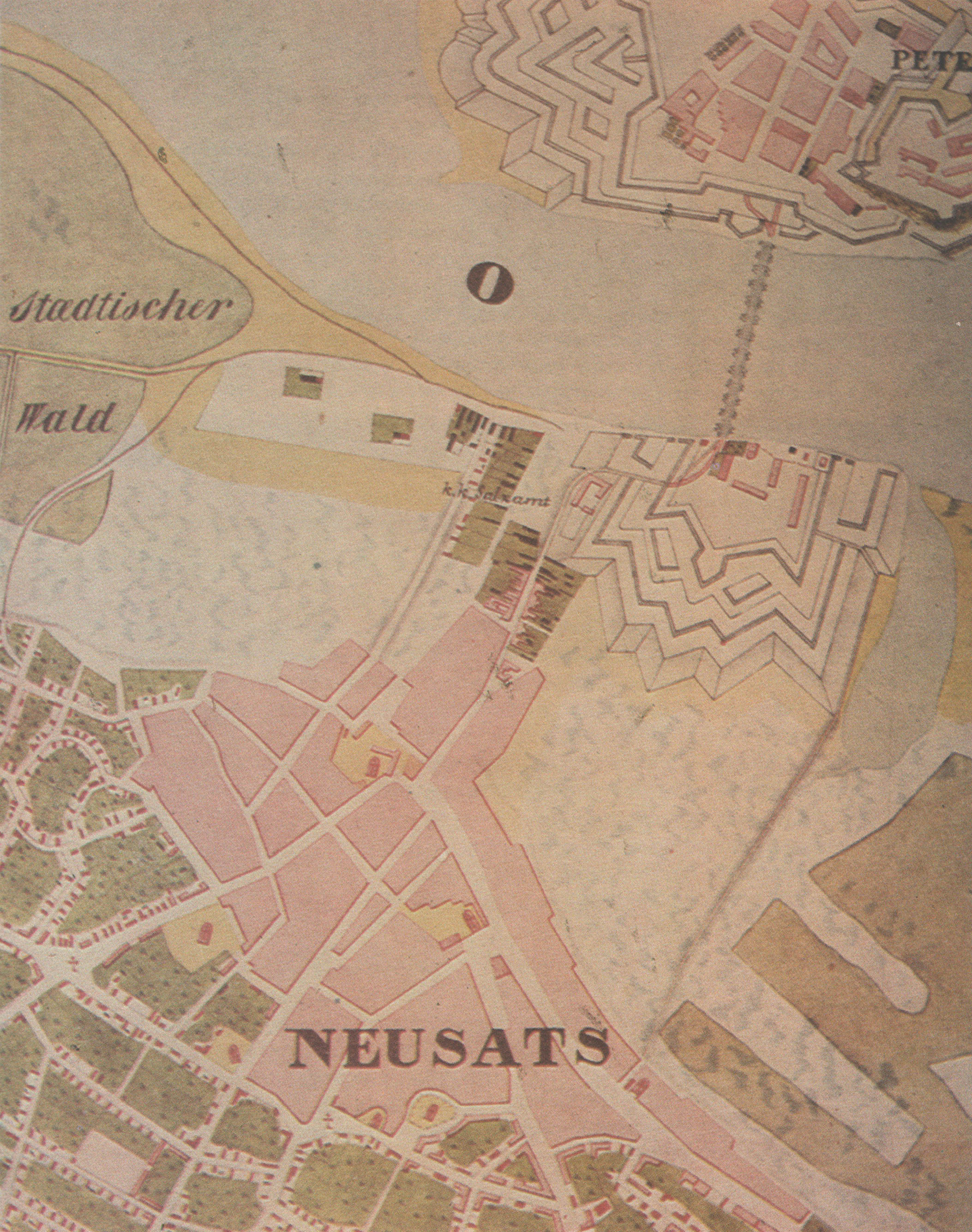 Map of Novi Sad from 1845.